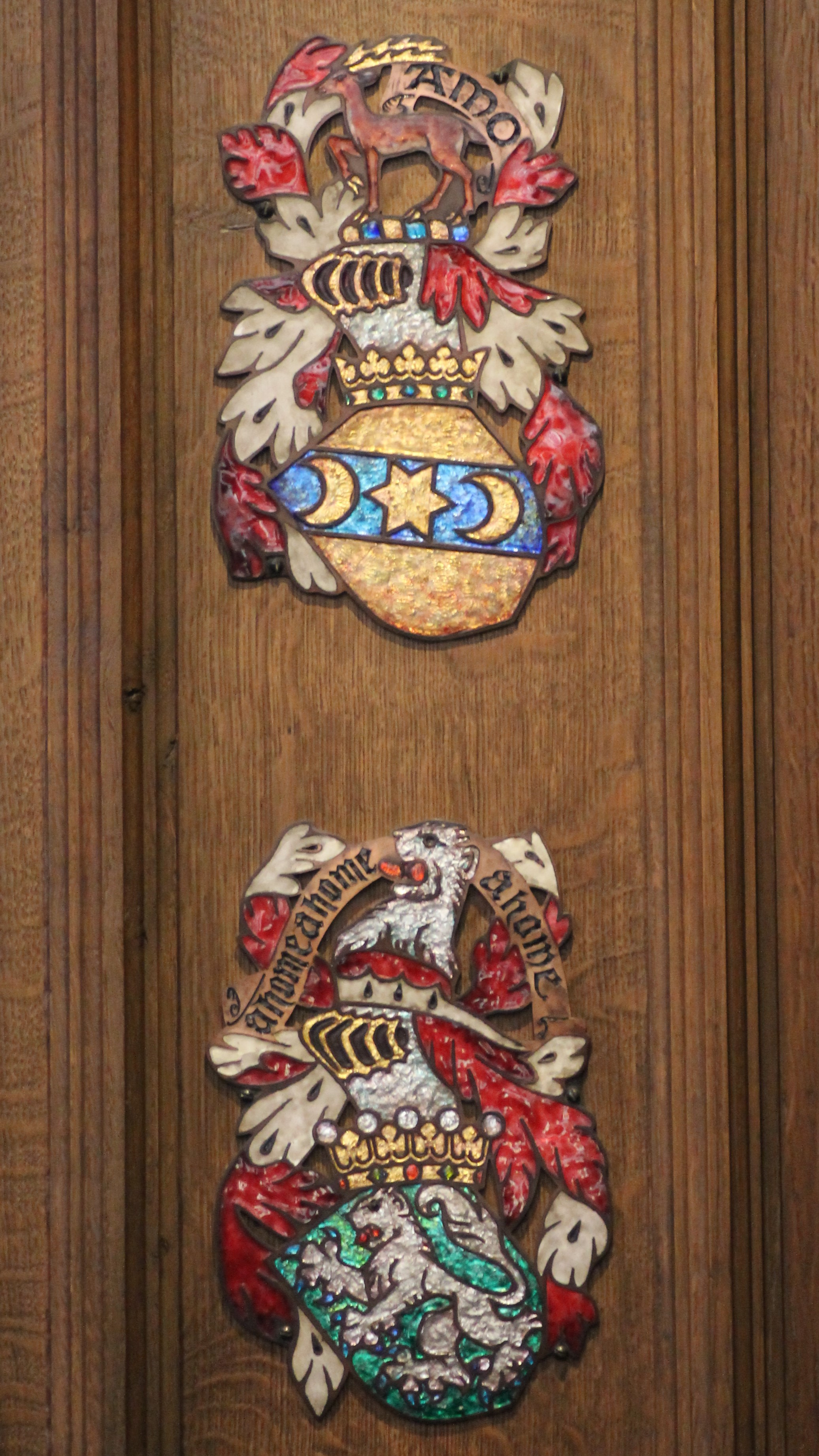 Translucent enamel stall plates by Phoebe Anna Traquair in the Thistle Chapel at St Giles' Cathedral, Edinburgh. The arms are those of the Duke of Buccleuch (Scott arms) (top) and the Earl of Home (Home arms) (bottom).